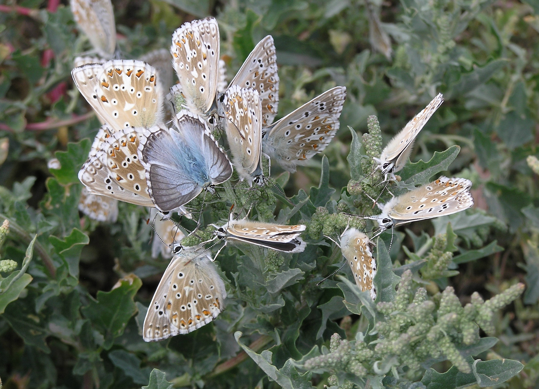 Chalkhill Blue (Polyommatus coridon Poda). A cluster of males puddling on Atriplex tatarica (L.) flower buds. Vicinity of Saratov city, Russia.